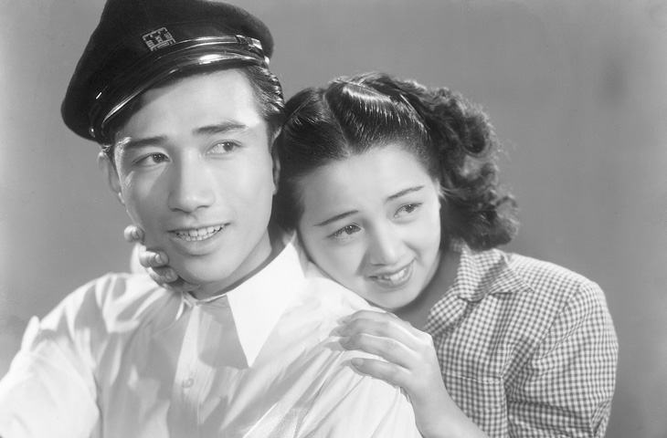 Keiji Sada and Yōko Katsuragi in Shōzō (1948) directed by Keisuke Kinoshita